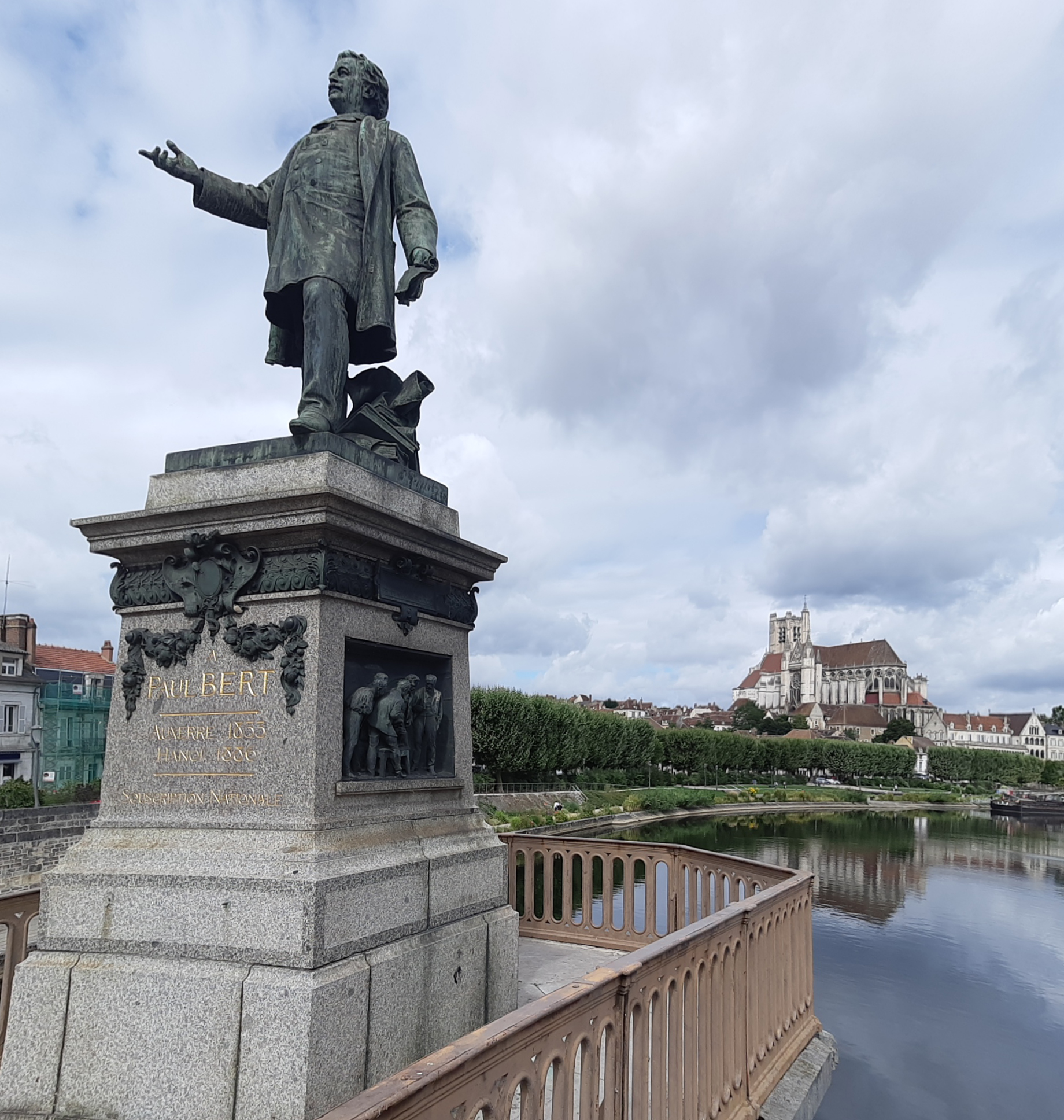 Paul Bert in Auxerre, (France)